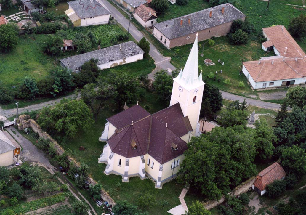 Szikszó, Hungary, aerial photography